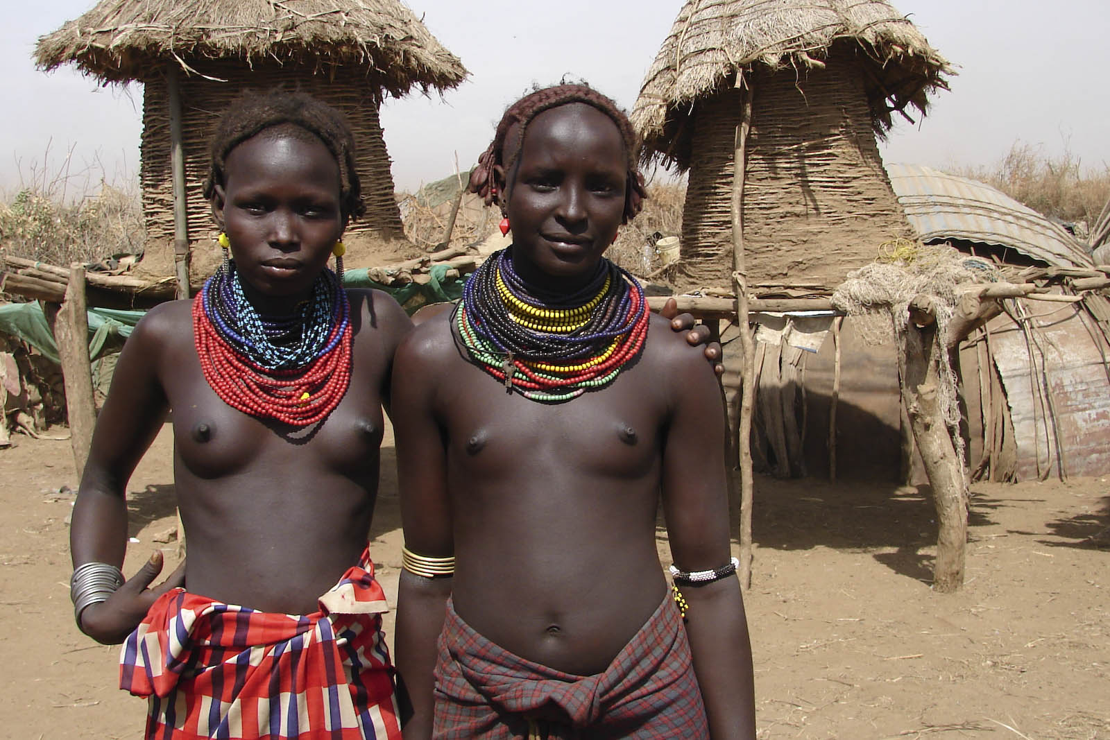 Dassanech tribe (Omorate, Ethiopia)